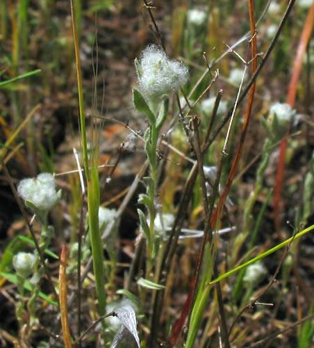 Micropus californicus at Circle X Ranch: Canyon view trail, Santa Monica Mountains National Recreation Area, California, USA.